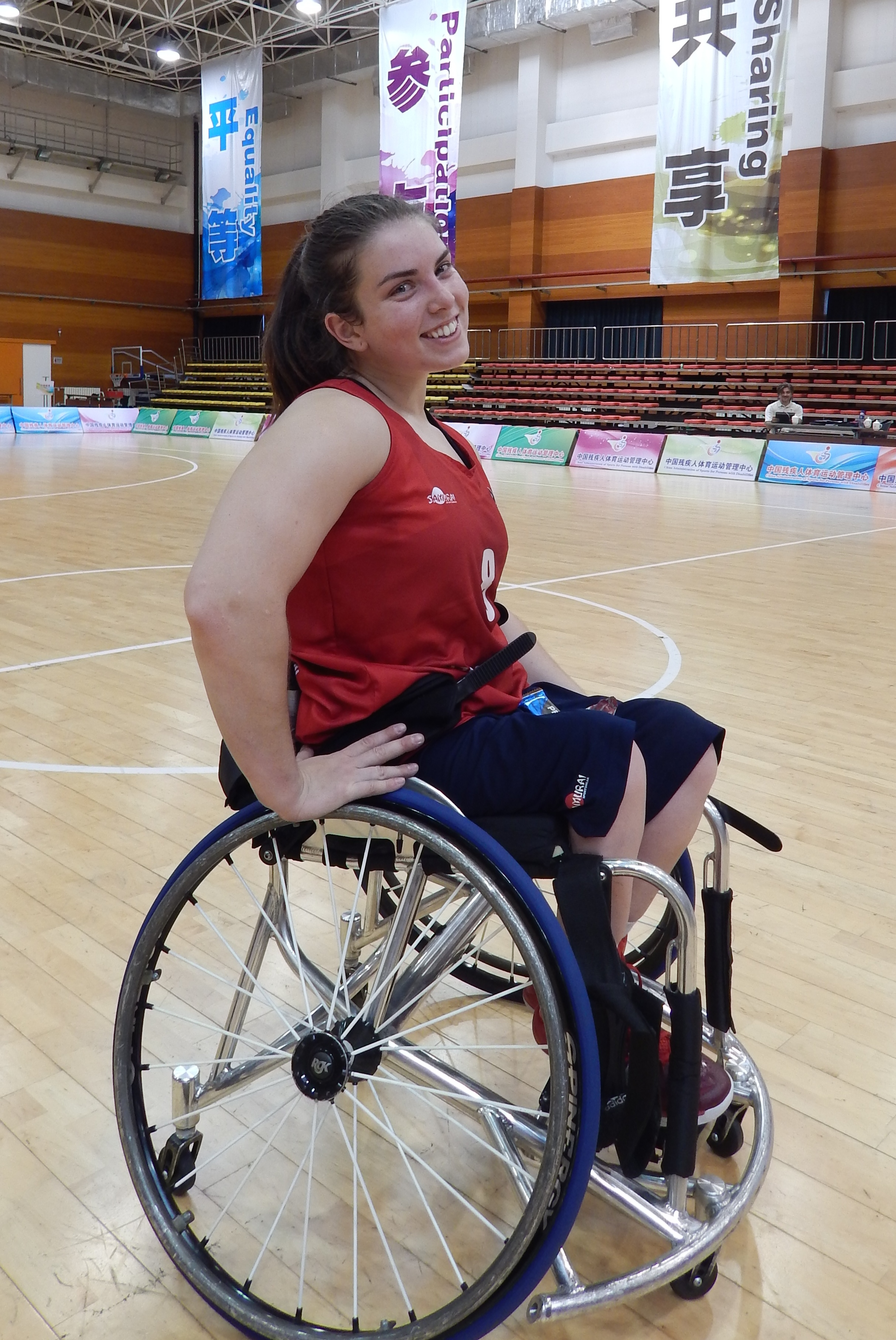 2015 Women's U25 Wheelchair Basketball World Championship - Team Great Britain - Laurie Williams